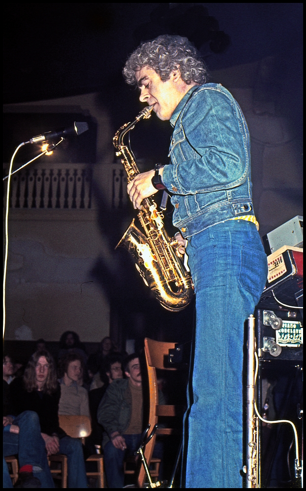 Charlie Mariano with 'Pork Pie', end of the 1970s in the Börse Wuppertal